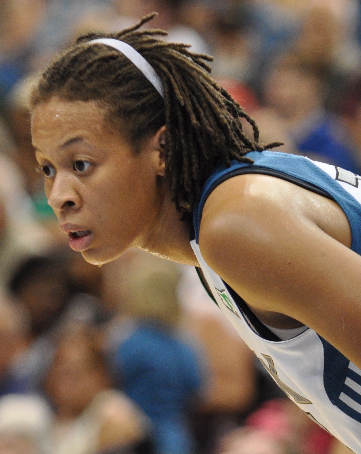 Seimone Augustus of the Minnesota Lynx